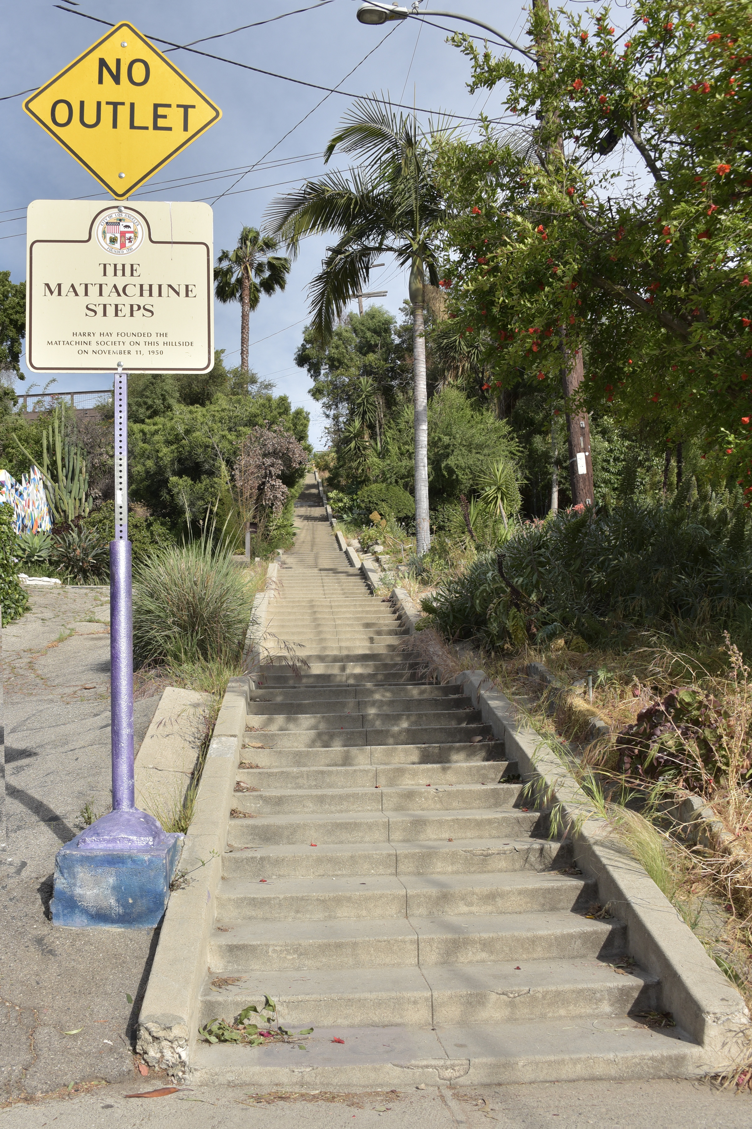 The Mattachine Steps in Silverlake California on April 28, 2017 - Photo by Glenn Francis of